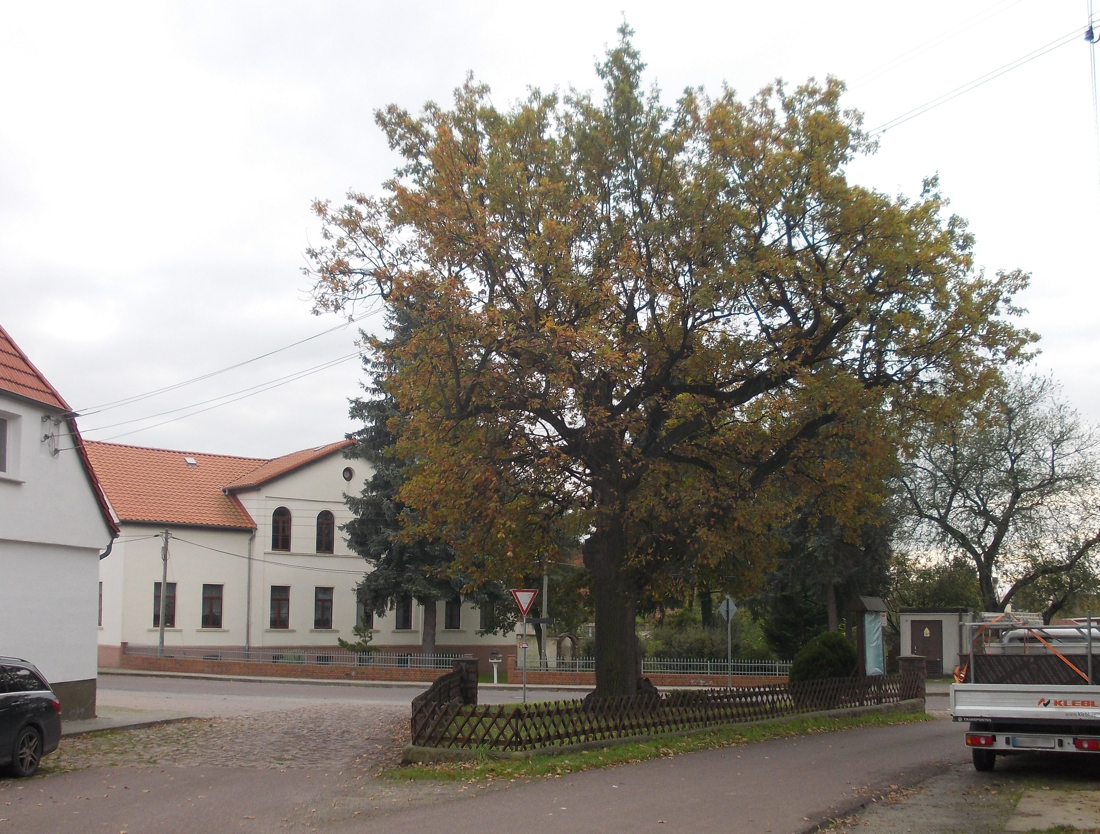 In Zabitz (Osternienburger Land, Anhalt-Bitterfeld district, Saxony-Anhalt)